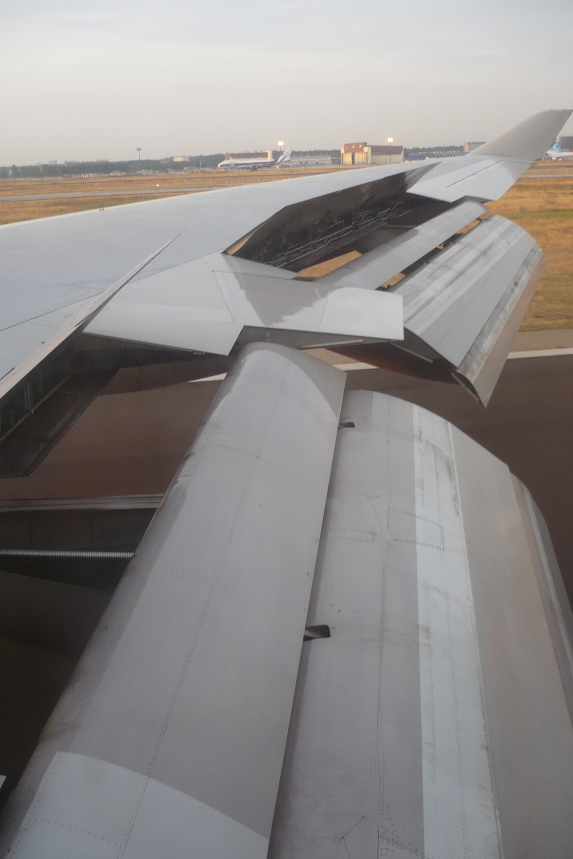 Boeing 747-400 wing while taxiing to FRA's Terminal 2 after Touchdown